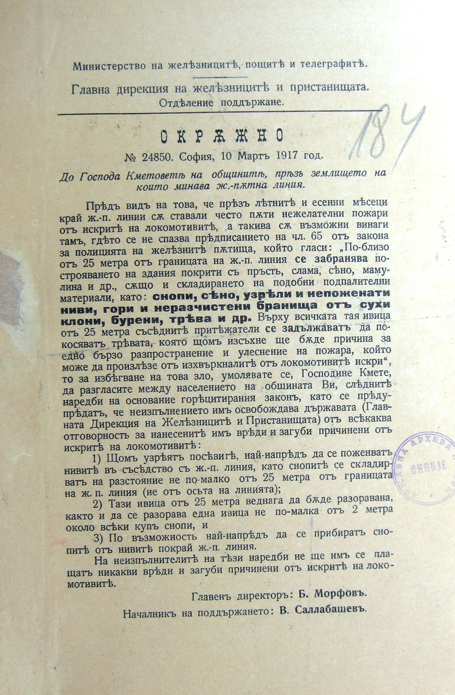 Order from the Ministry of railways, roads and telegraph from Sofia to all municipalities to remove any flammable material at a distance of not less than 25 meters from the boundary of the railway. Otherwise, Ministry will not pay anything for the damage from the sparks of the locomotive. (10 March 1917) This media file is produced by Wikipedian in Residence in Category:Wikipedian in Residence at DARM in 2016.